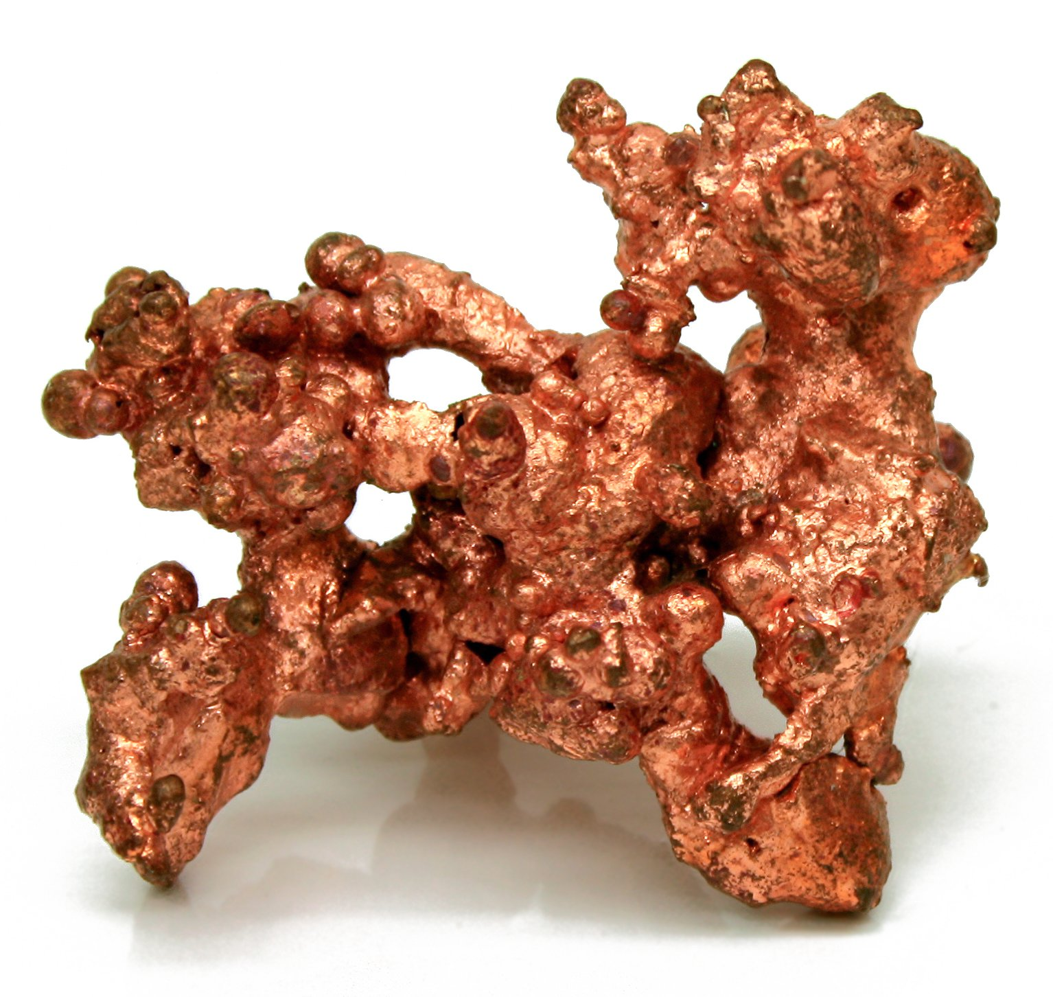 Macro of native copper about 1 ½ inches (4 cm) in size.